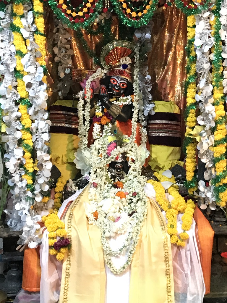 Shyamsundarji and Gopalji in Choto Rasbari in Tollygunge.